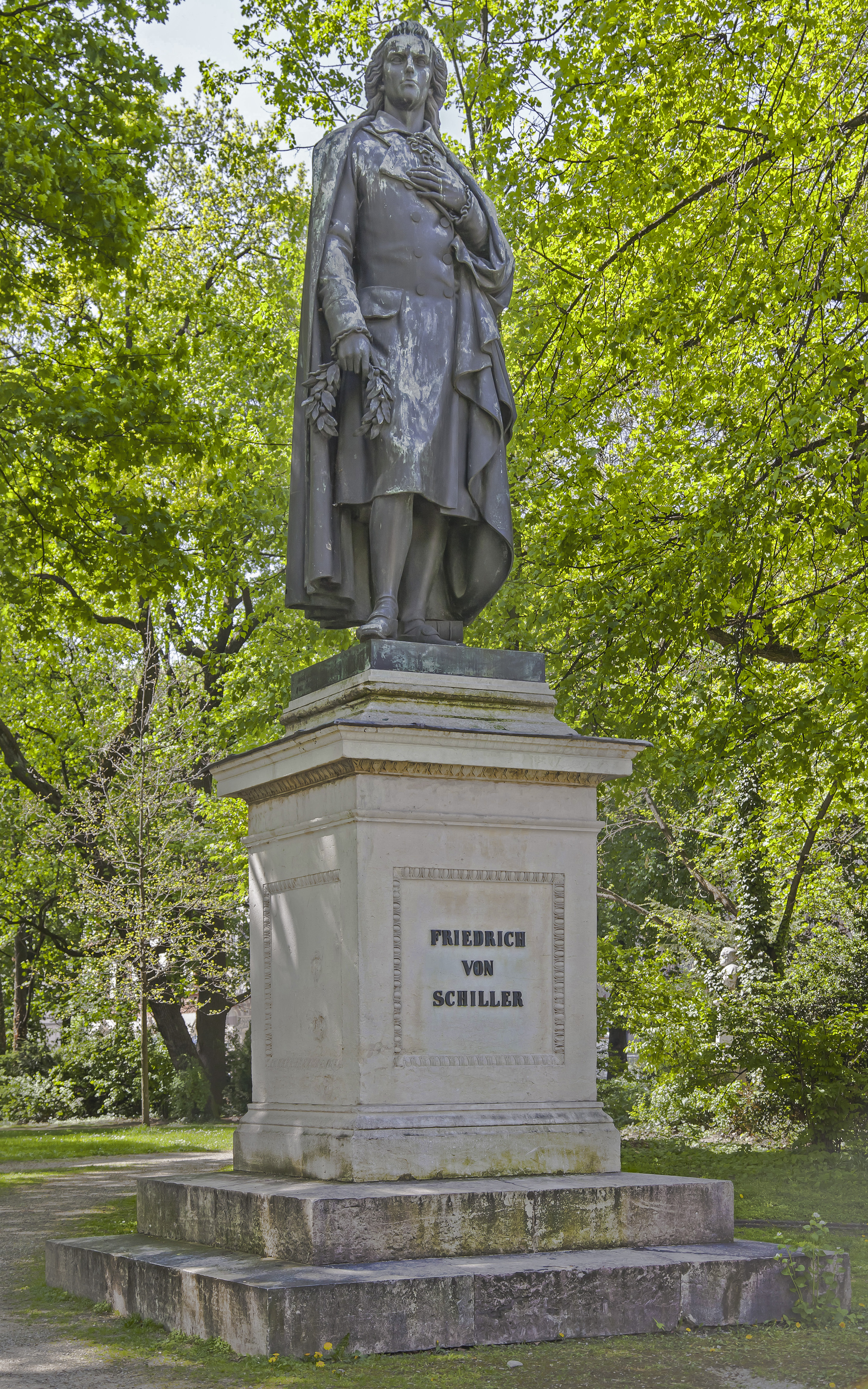 Monument to Schiller, Munich, Germany